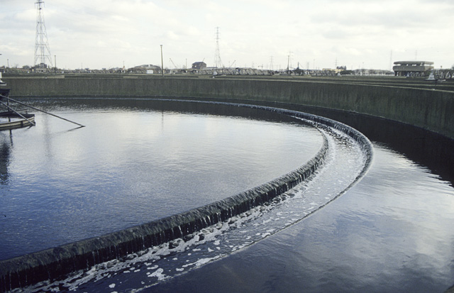 Beckton STP: Secondary Settling Tank The effluent from the 1481906 is pumped into these tanks. It contains a suspension of flocs, mainly of micro-organisms. These are allowed to settle to the bottom as secondary sludge. The supernatant flows into the circular channels. By now it is ready for discharge into the river 1481935. The sludge (together with the primary sludge) is taken to the 1481947. Some of the sludge, however, is retained as a seed for the 1481906, to activate the process.